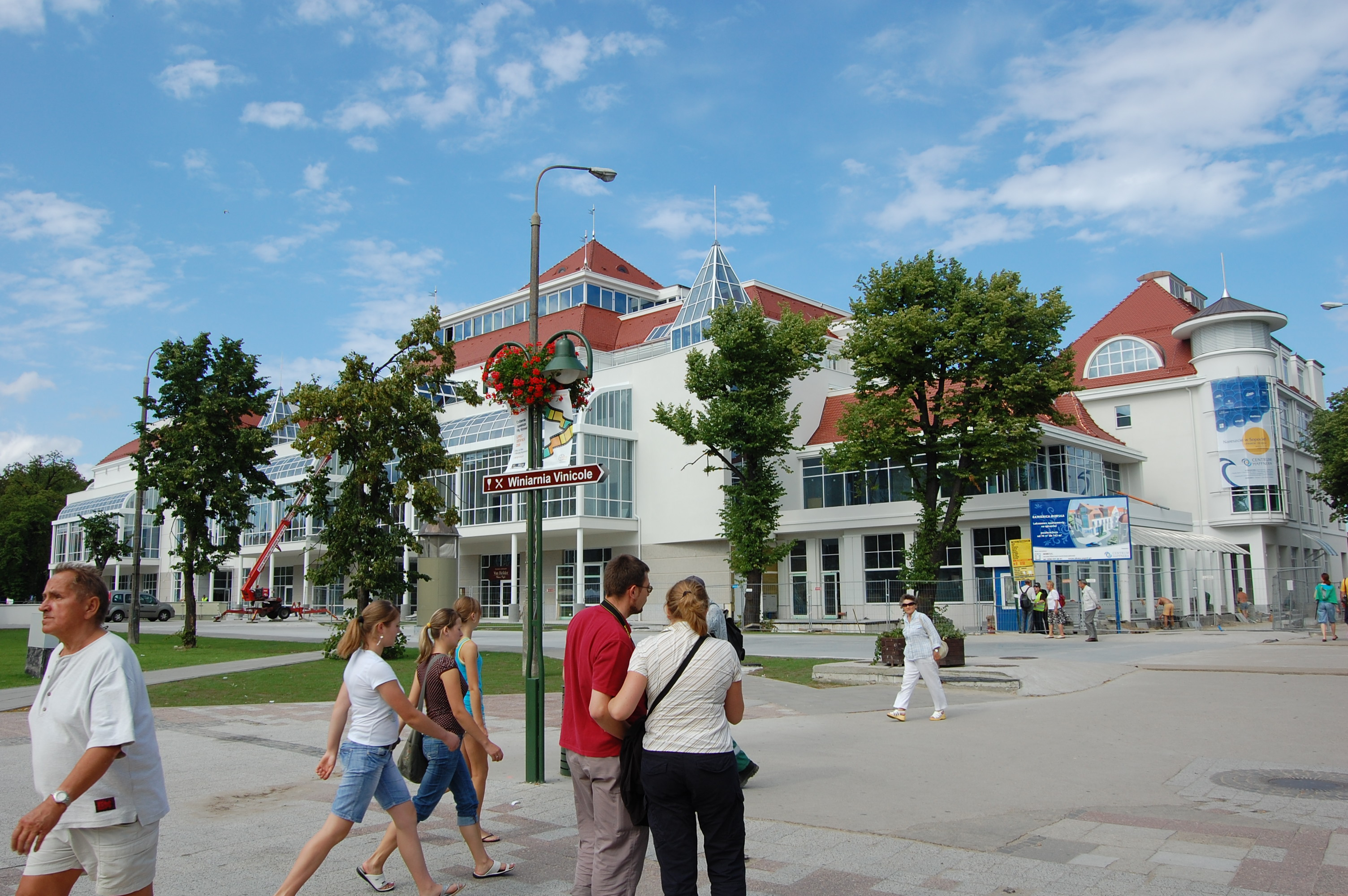 Spa House in Sopot